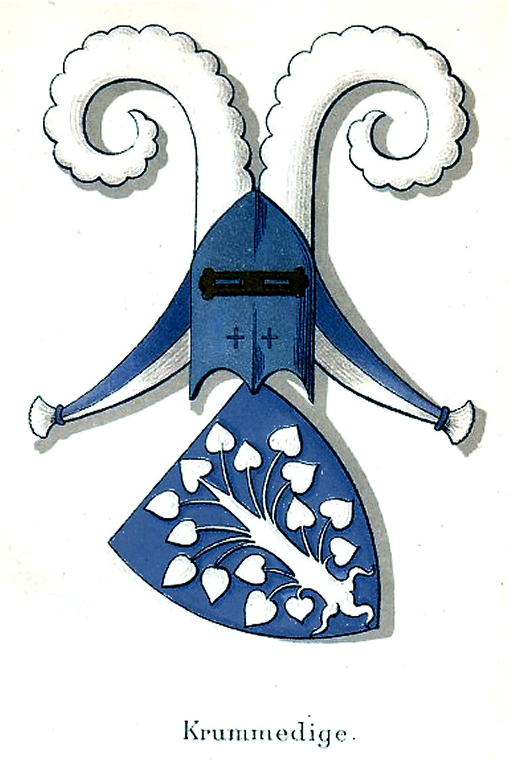 Coat of arms of the Krummedige family